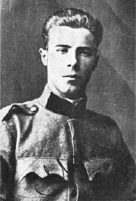 Miloš Zidanšek Vencelj (1909 — 1942), Slovene partisan and national hero